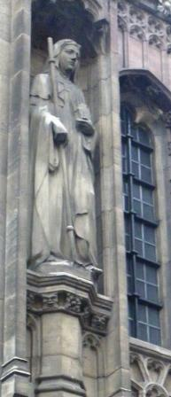 Statue of St Ethelburga on of three niche figures above the north porch of All Hallows Barking.They are by Nathaniel Hitch and to John Loughborough Pearson's design. They survived the German bombing in 1940. The Church was restored and is now All Hallows by The Tower/St Dunstan in the East. Some photographs of Hitch’s sculptures are shown below. The three figures are St Ethelburga who was the sister of Erkenwald the founder in the seventh century of Barking Abbey and the original church on this site had belonged to that Abbey, the Virgin and Child and Lancelot Andrewes. Andrewes had been Bishop of Winchester in the reign of James I and was baptised in All Hallows. Both Bishop John Fisher and Archbishop William Laud were buried in All Hallows Barking and it was from the church tower that Samuel Pepys saw the Great Fire of London. William Penn was baptized in the church and President John Quincy Adams was married there. The Revd P.B.”Tubby” Clayton was the rector of All Hallows in the inter-war years and the TOC H lamp burns perpetually on a tomb chest at the east end of the church’s north aisle